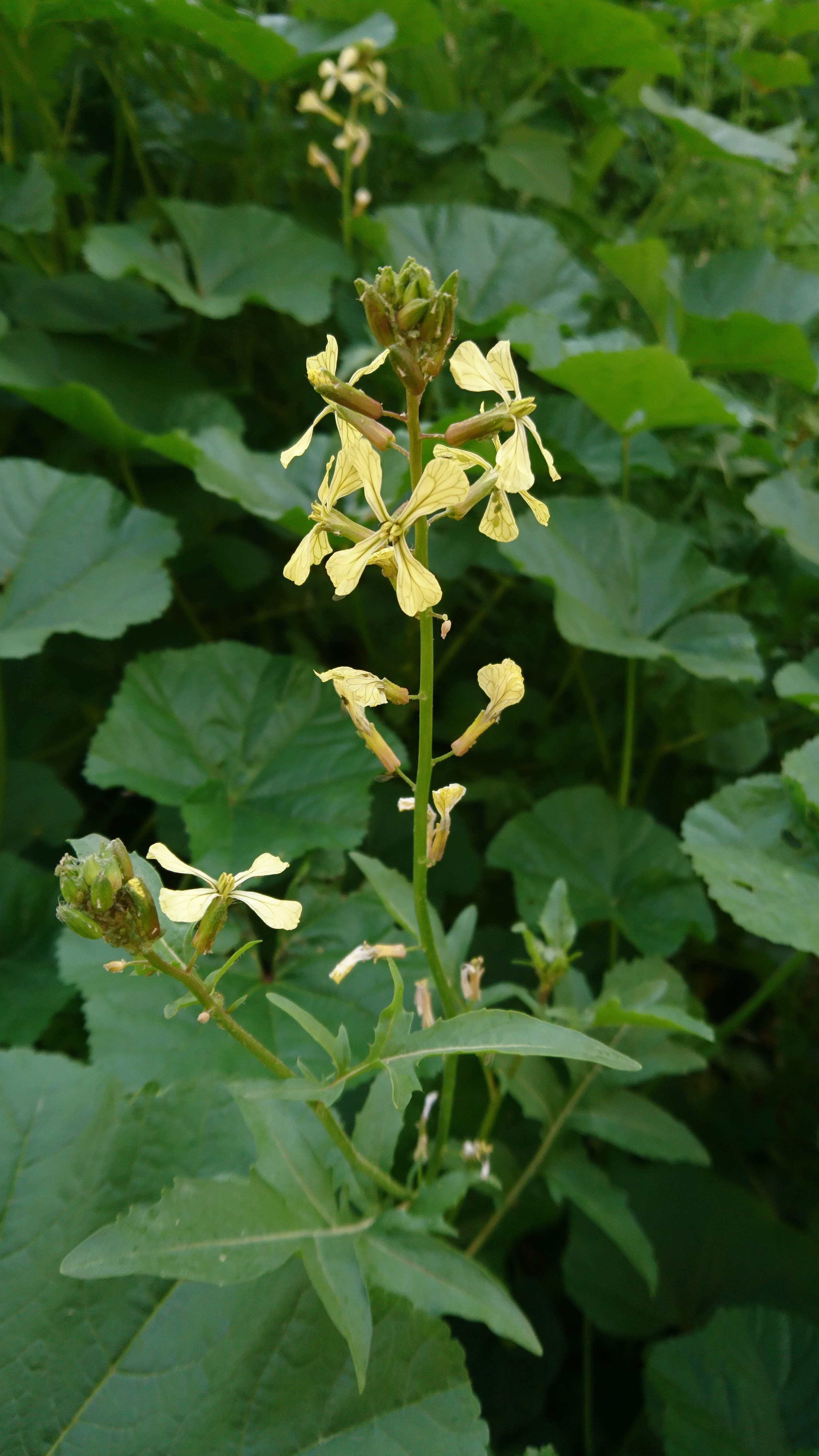 Wild Radish in Behbahan